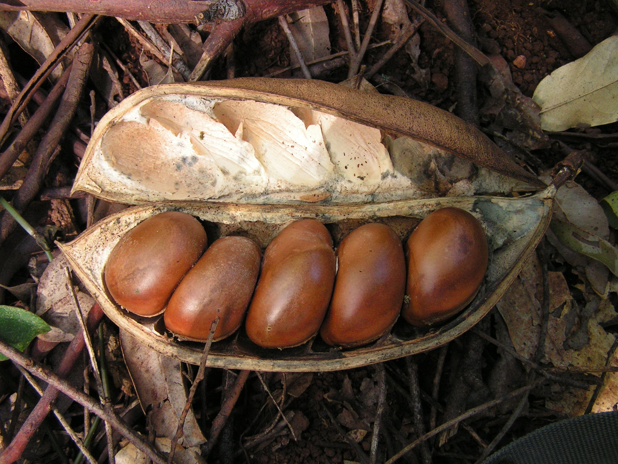 Black Bean (Castanospermum australe) near Ravensbourne, Queensland, Australia